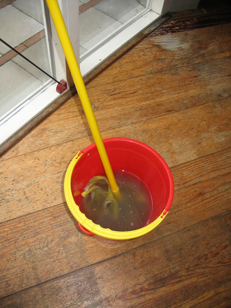 Worldwide: various ecosan teaching photos